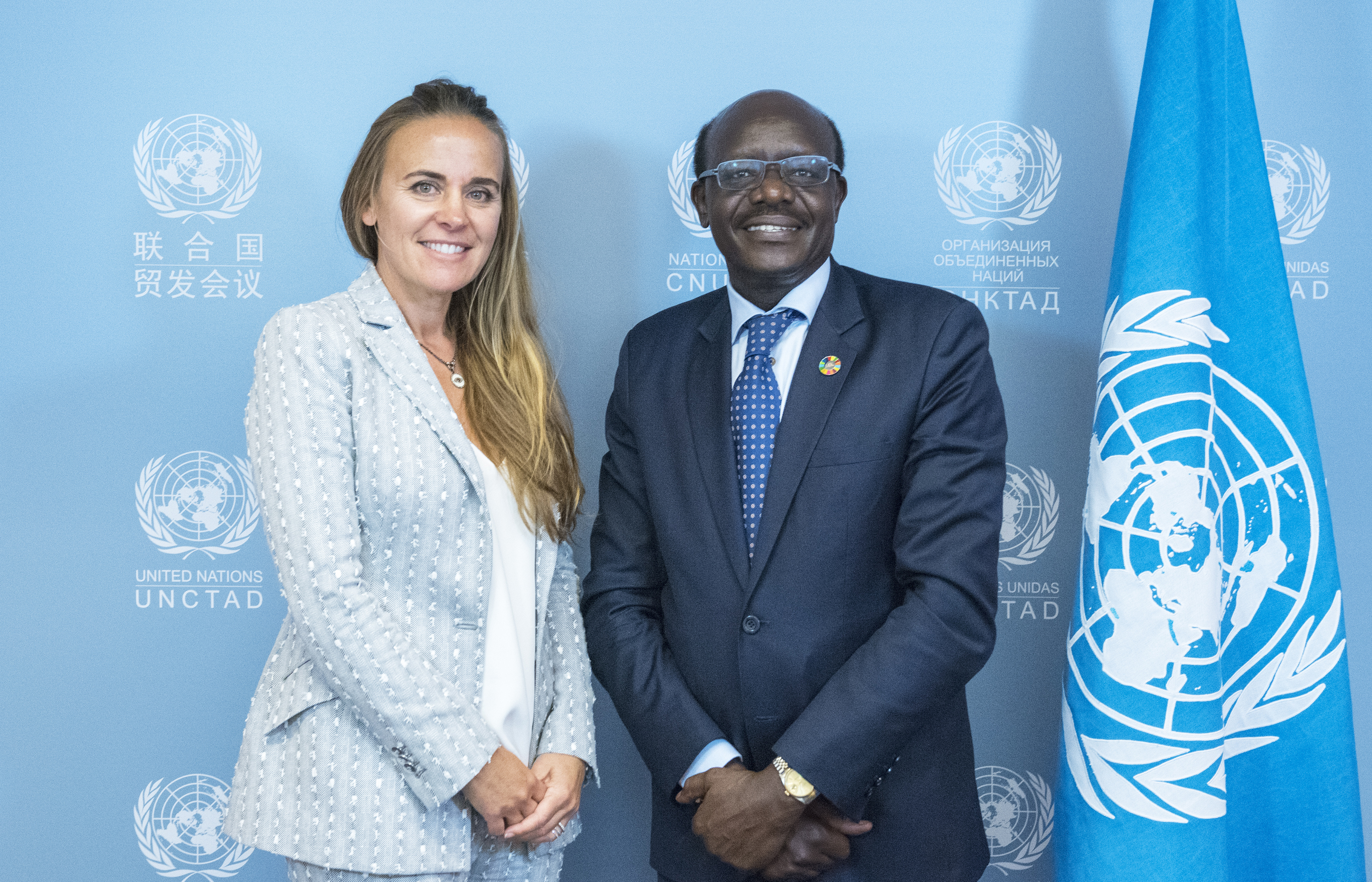 Dona Bertarelli (also known as Donata Guichard Bertarelli, Donata Bertarelli Späth, Donata Bertarelli Spaeth)[1][2] (born 1968) is a Swiss businesswoman of Italian origin. Special Adviser to UNCTAD